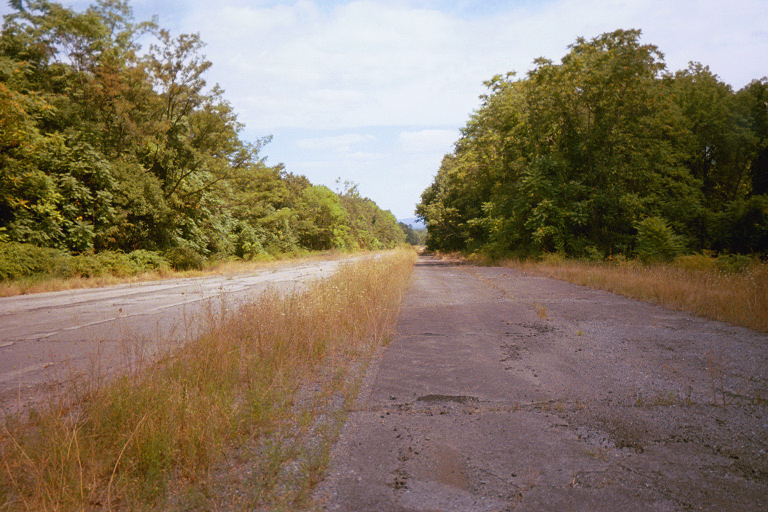 Image of Abandoned Turnpike